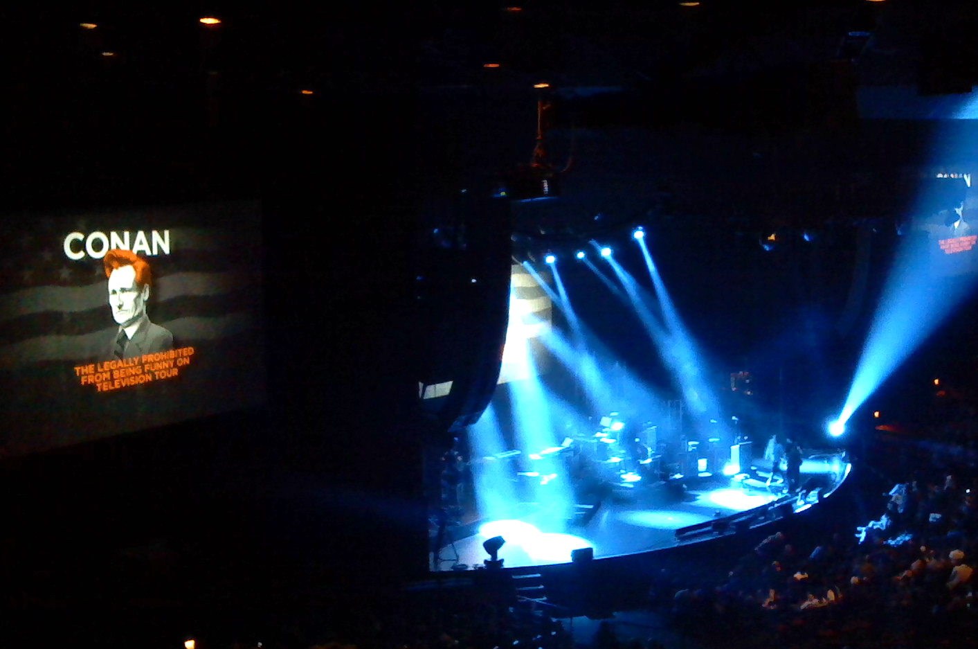 Conan O'Brien's Legally Prohibited From Being Funny on Television Tour. April 24, 2010, Universal City, California, Gibson Amphitheatre.